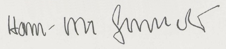 Signing of Hans-Dietrich Genscher contract: The Two Plus Four Agreement (officially the Treaty on the Final Settlement with Respect to Germany): 1990 treaty